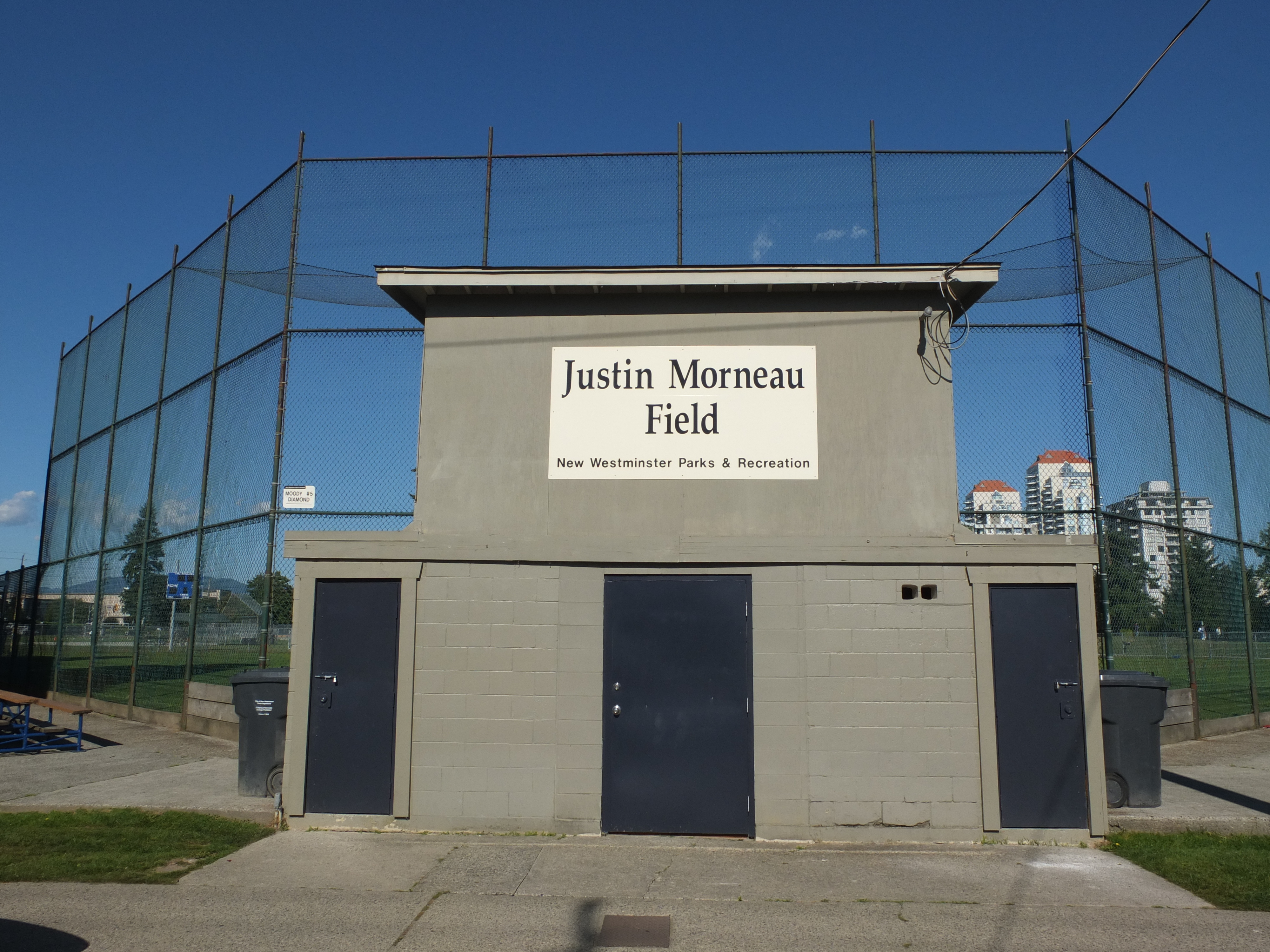 Baseball diamond #5 in Moody Park was named Justin Morneau Field named in honour of local major league baseball player Justin Morneau On February 2, 2008. The sports fields of Moody Park were originally constructed in 1892 and the stadium renovations were added by the News Westminster Chamber of Commerce in 1954.